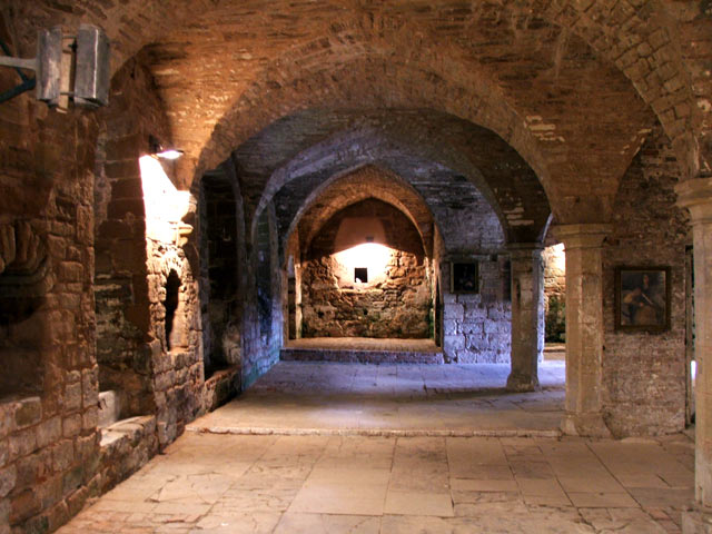 Underneath Rufford Abbey Underneath the main Abbey are some catacombs or cellars that have been opened up and used to display some artwork.